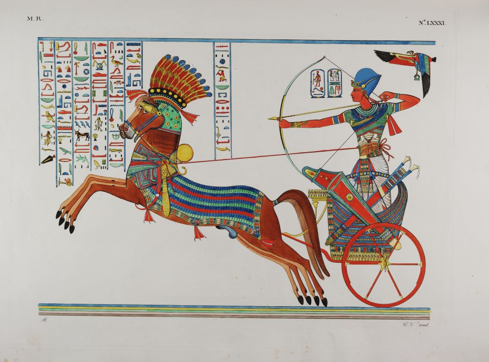 Plate from "Monumenti dell'Egitto e della Nubia", a work published in Pisa, Italy, containing hieroglyphics and reliefs taken from monuments in Egypt and Nubia. The shelfmark for this item is SAC:333 Ros.